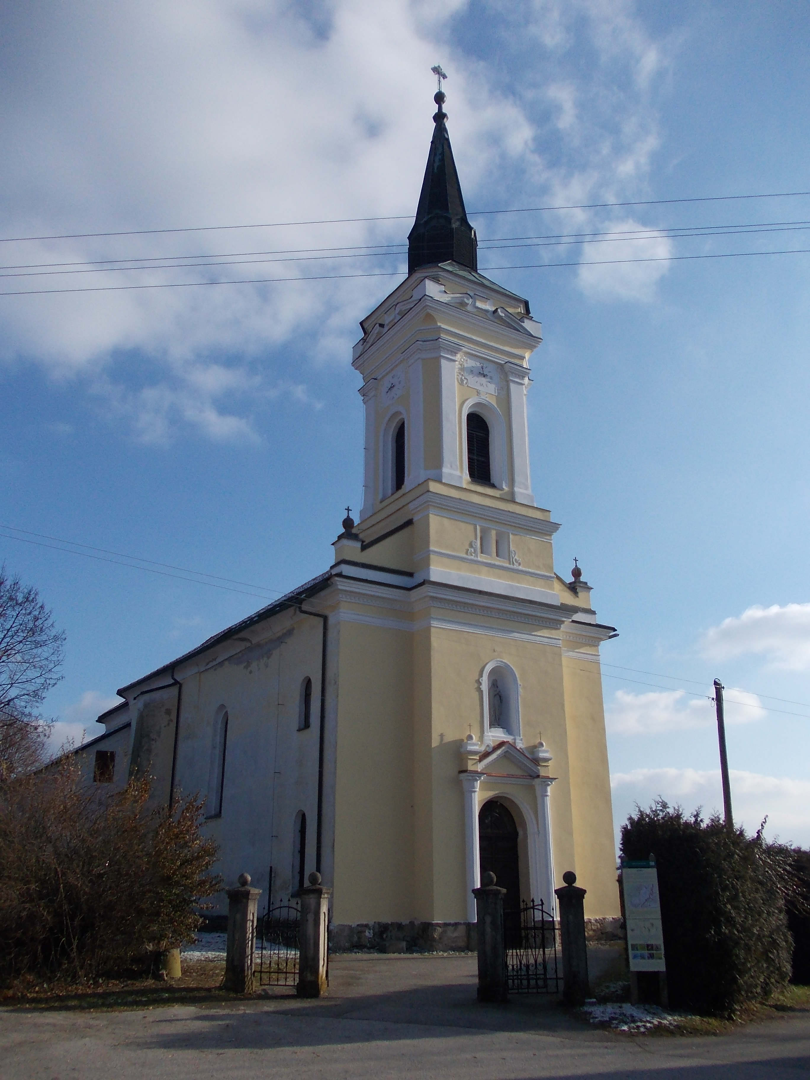 Assumption of Mary Parish Church (Kapele)